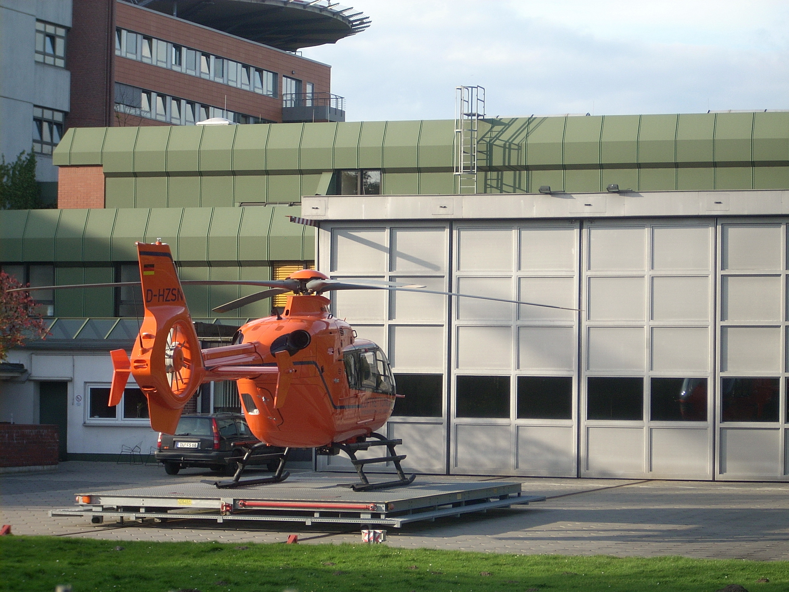 rescue helicopter "Christoph 9" in front of his hangar in Duisburg, Germany